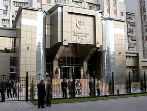 The Central Bank building in Transnistria.